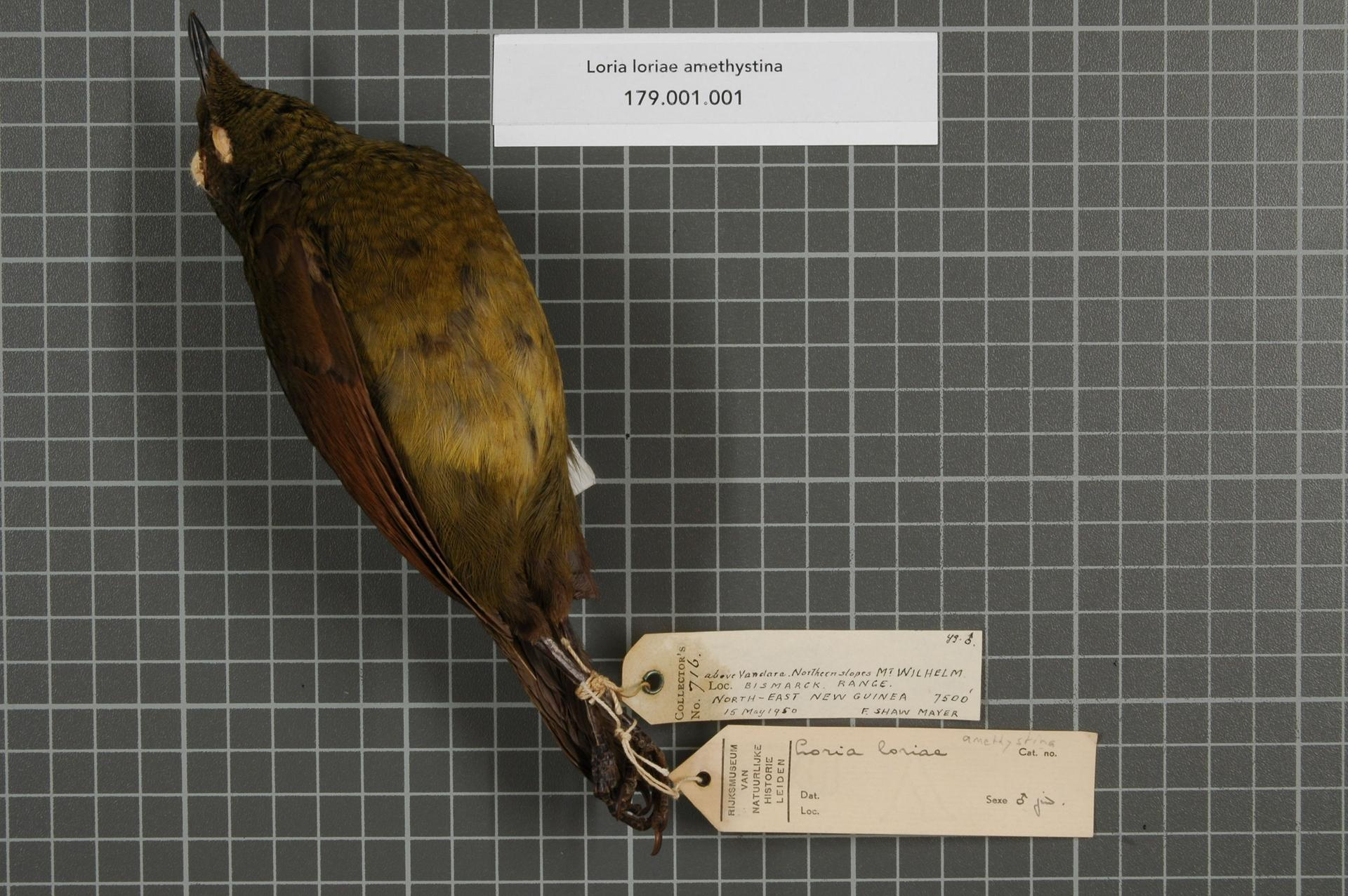 Loria loriae amethystina Stresemann, 1934